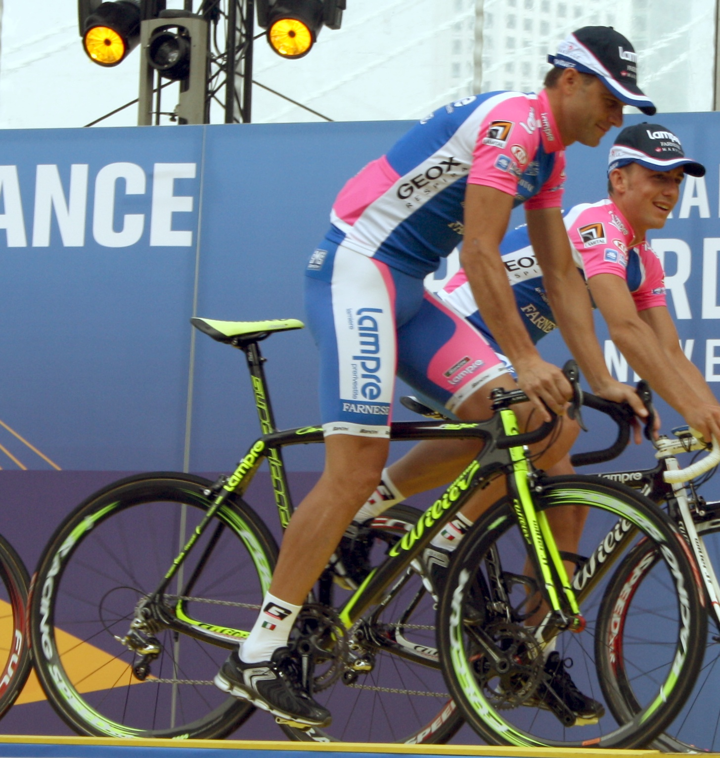 Alessandro Petacchi at the team presentation of the 2010 Tour de France in Rotterdam